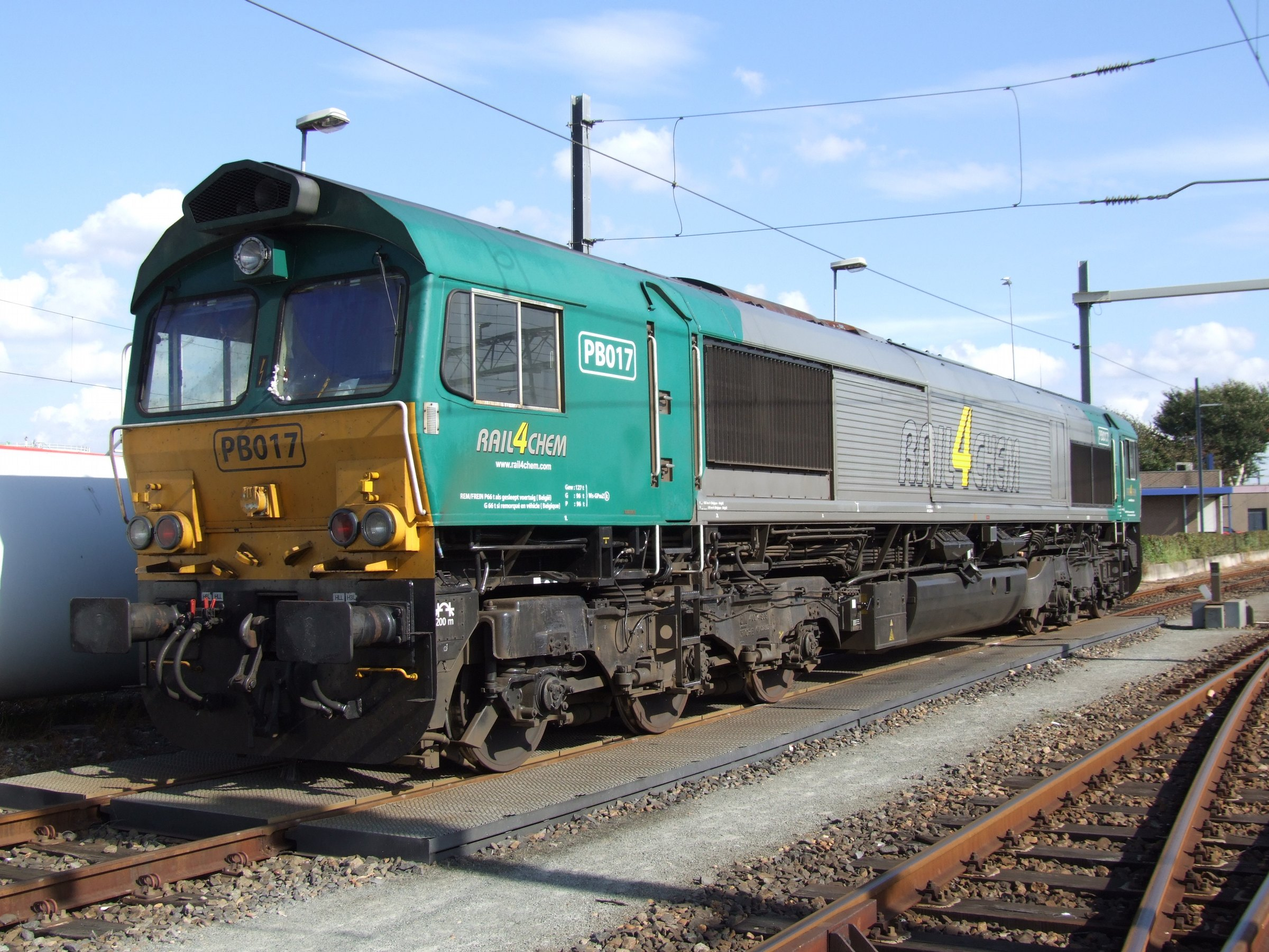 Photographed near Rotterdam, The Netherlands.